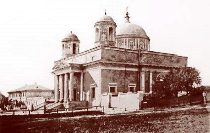 Church of St. Alexander, Kiev, Ukraine.